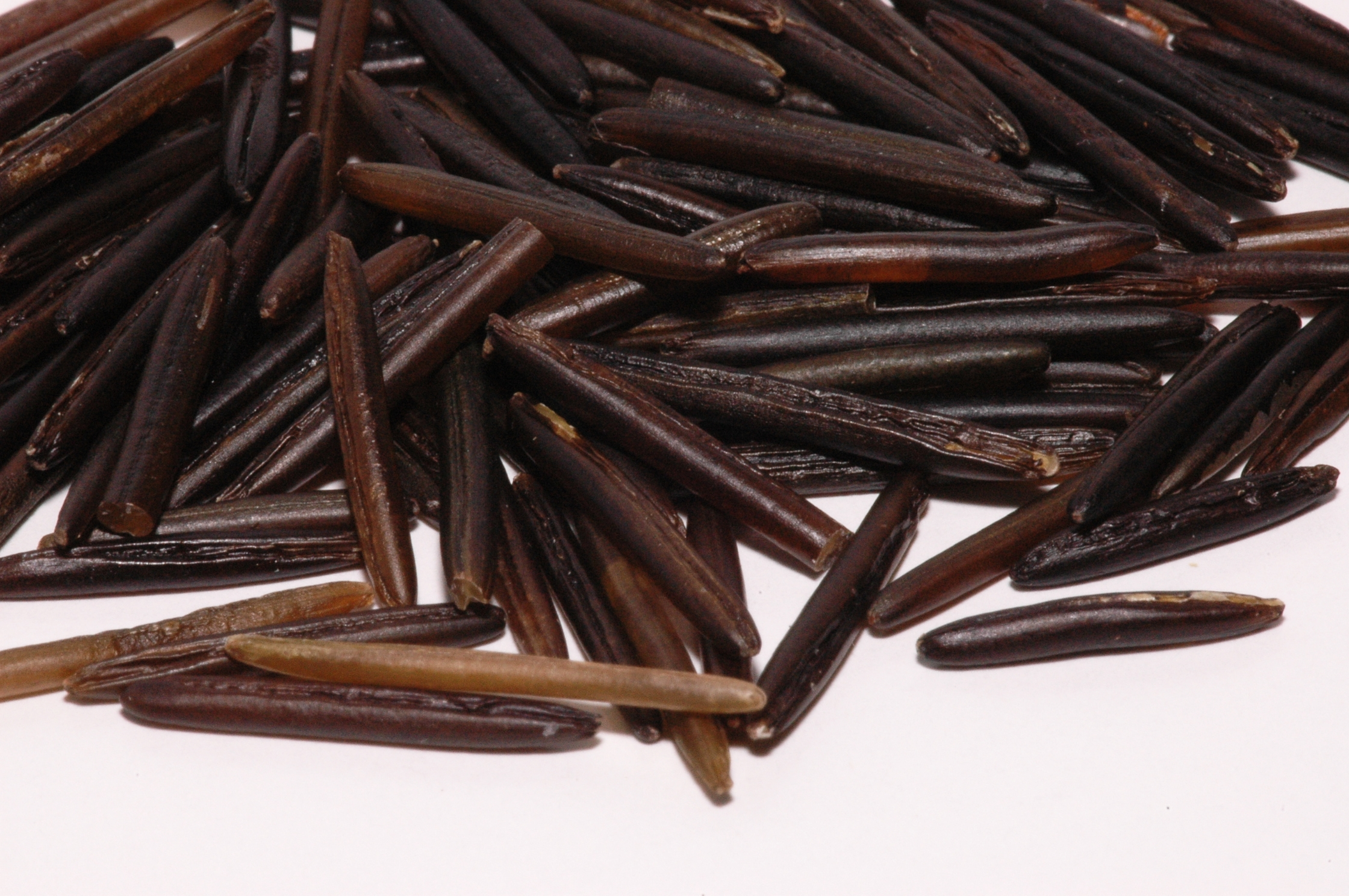 Zizania palustris or Northern wild rice, an annual plant native to the Great Lakes region of North America.